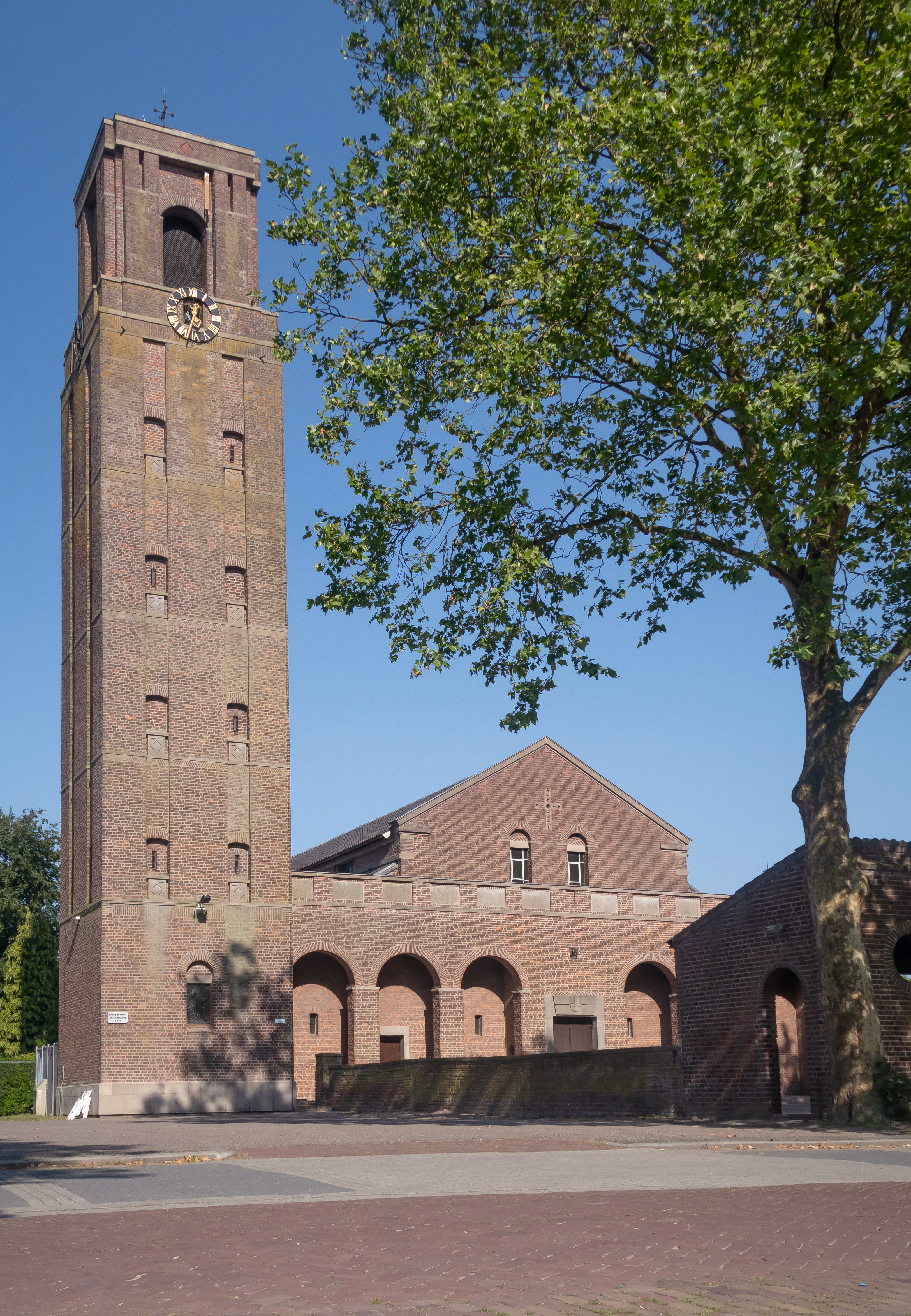 Kerkdriel, de toren van de katholieke kerk